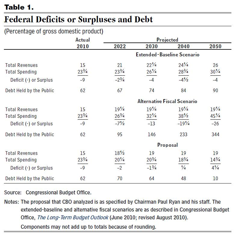 This image depicts U.S. federal deficits, surpluses, and debt as percentages of GDP under various plans including the April 2011 proposal.